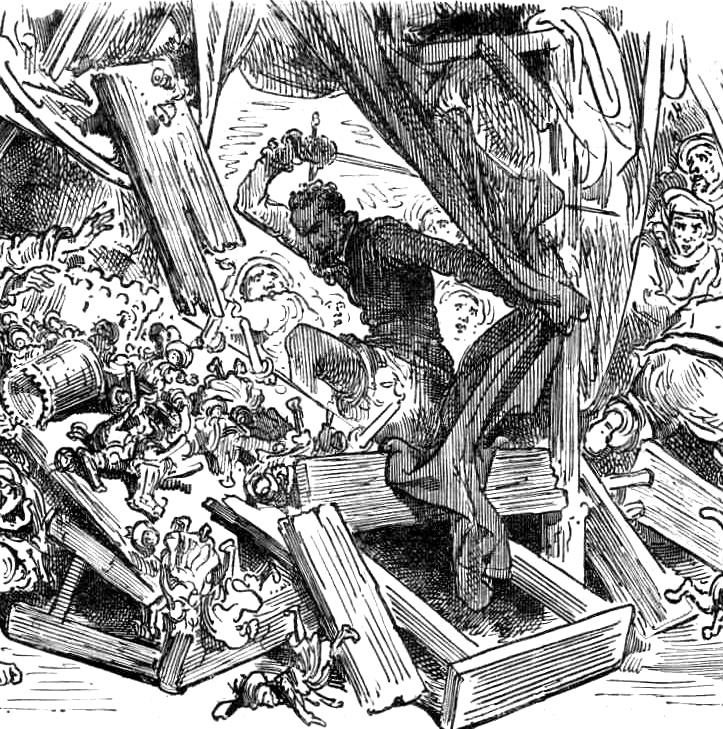 Illustration from Chapter XXVI of Don Quixote